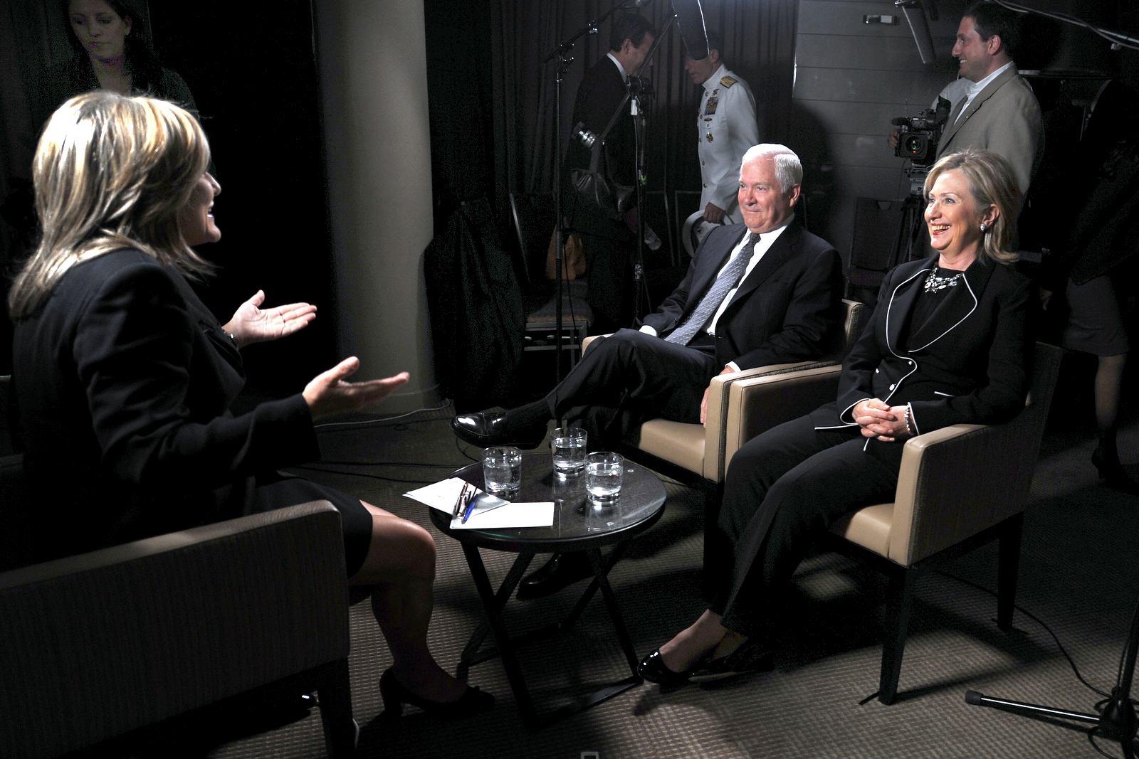 U.S. Defense Secretary Robert M. Gates and Secretary of State Hillary Rodham Clinton speak with ABC Nightline Anchor Cynthia McFadden during a joint interview in Melbourne, Australia, Nov. 7, 2010.